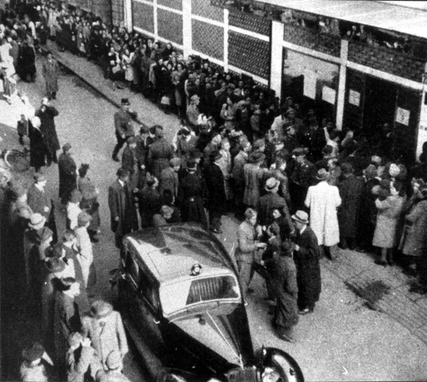 In Budapest, Hungary, crowds of people waited in front of the building of the Swiss Legation on Vadasz St. for protective passports.